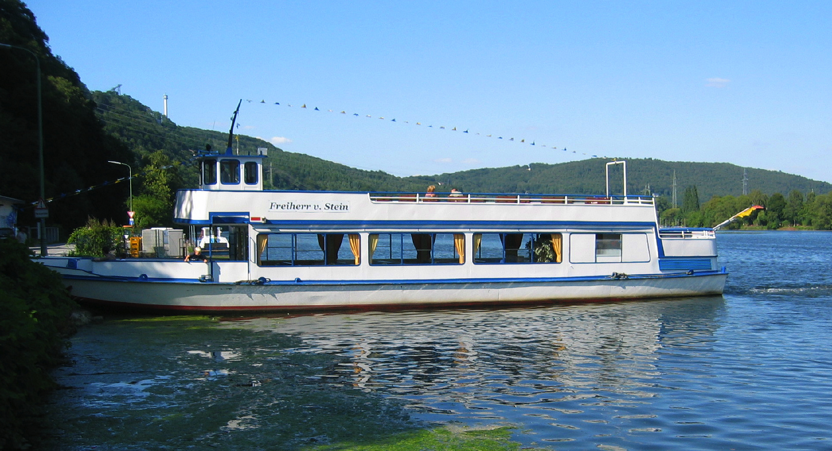 MS "Freiherr vom Stein" on the Hengsteysee, Herdecke, Germany.